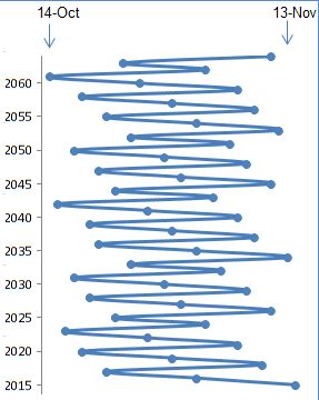 This chart shows the fluctuations of the eighth new moon after Naw-Rúz (Bahá'í New Year) 172 to 221 B.E. (2015 - 2065 C.E.), marking the date for the Twin Holy Birthdays, referring to two successive holy days in the Bahá'í calendar and effective from 2015 C.E. onwards. The dates for this chart have been taken from the following table: Bahá'í Dates 172 to 221 B.E. (2015 - 2065; prepared by the Baha'i World Centre).